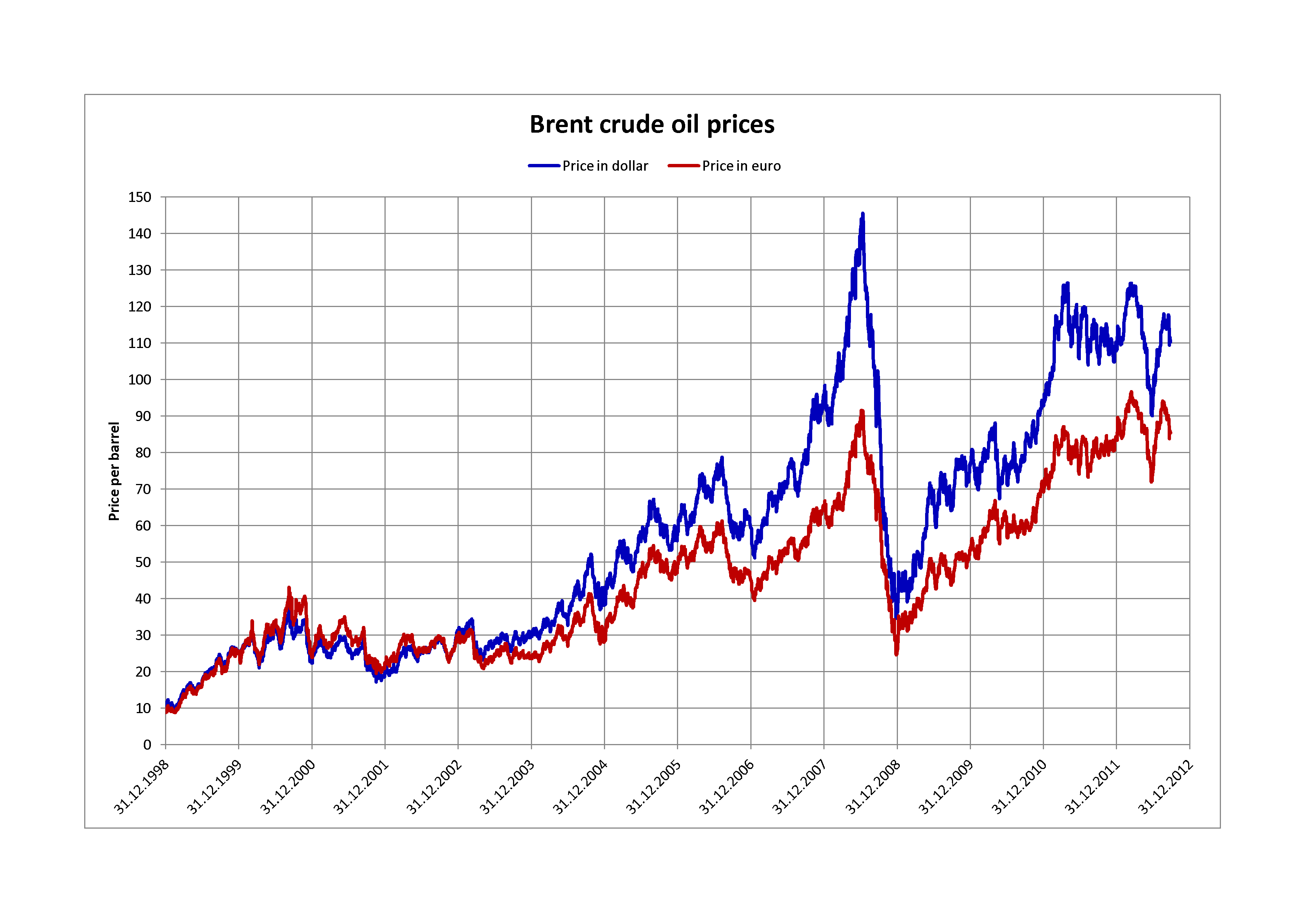 Brent crude oil prices from 1998 to 2012 (in dollars and euros per barrel)